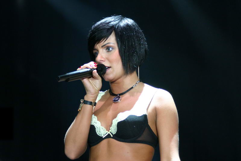 Yulia Volkova at t.A.T.u.'s concert, Novosibirsk